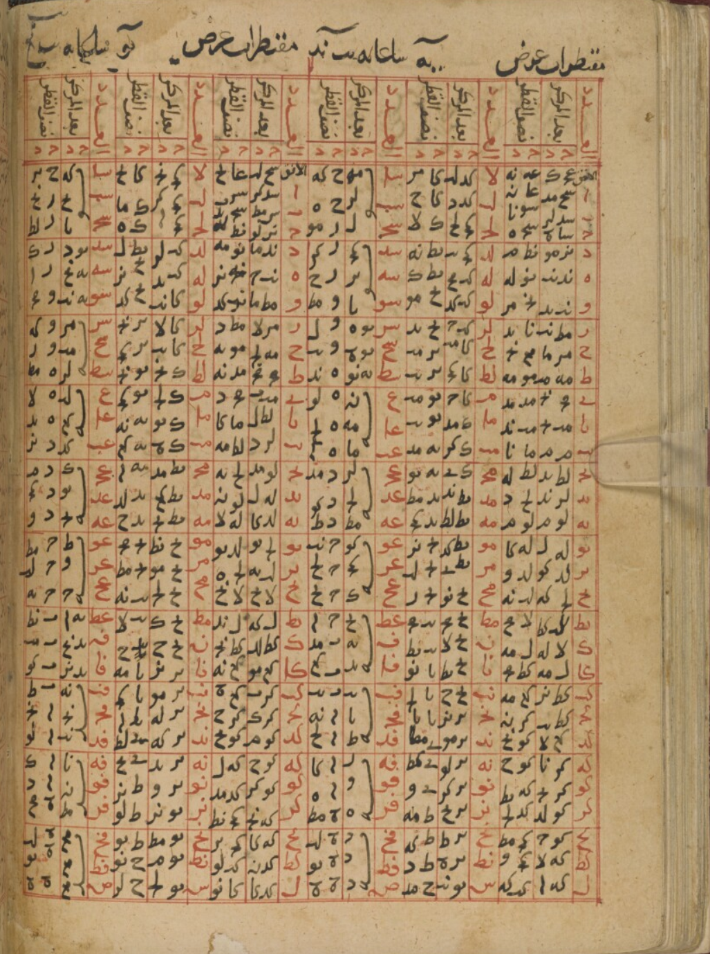 A page from a manuscript of a book about astrolabe in Arabic